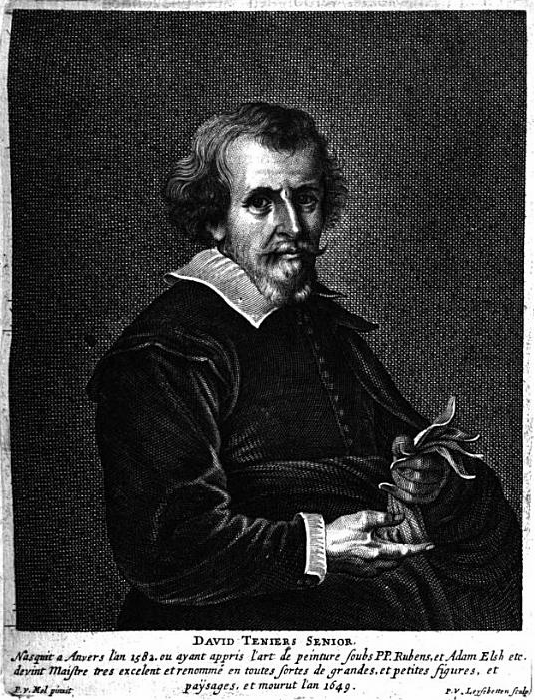 Portrait of David Teniers (Senior) in Cornelis de Bie's Gulden Cabinet.